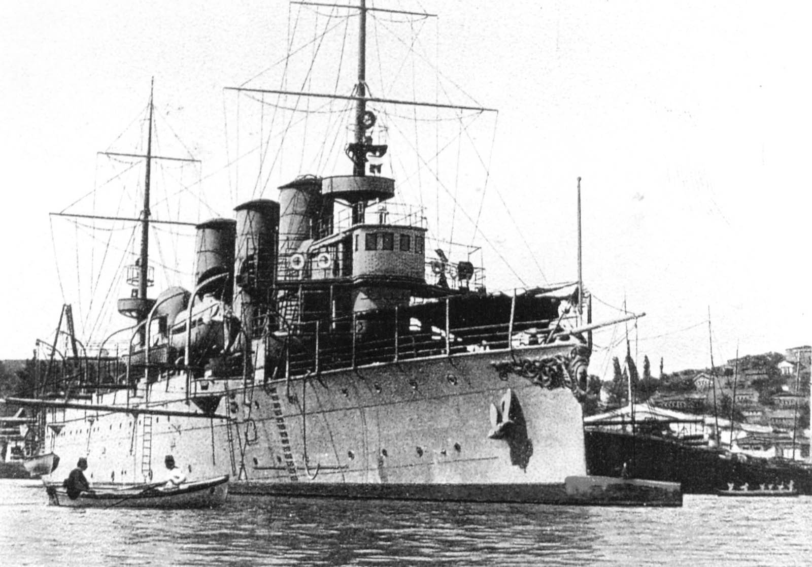 Ottoman cruiser Mecidiye, later Imperial Russian cruiser Прут (Prut), in Haliç.